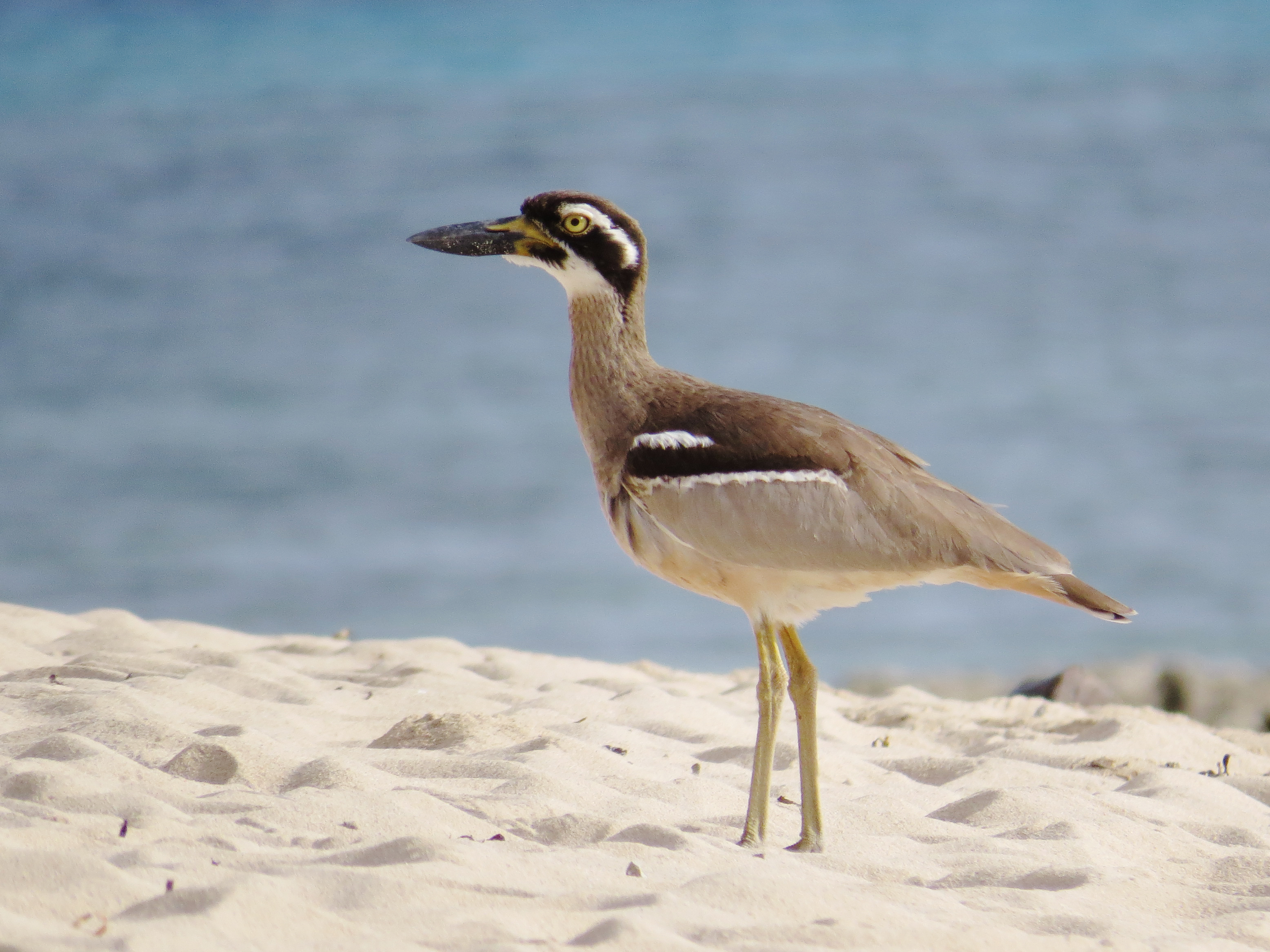 Beach stone-curlew taken on Green Island off Cairns, north Queensland.